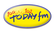 Today FM logo pre-2011